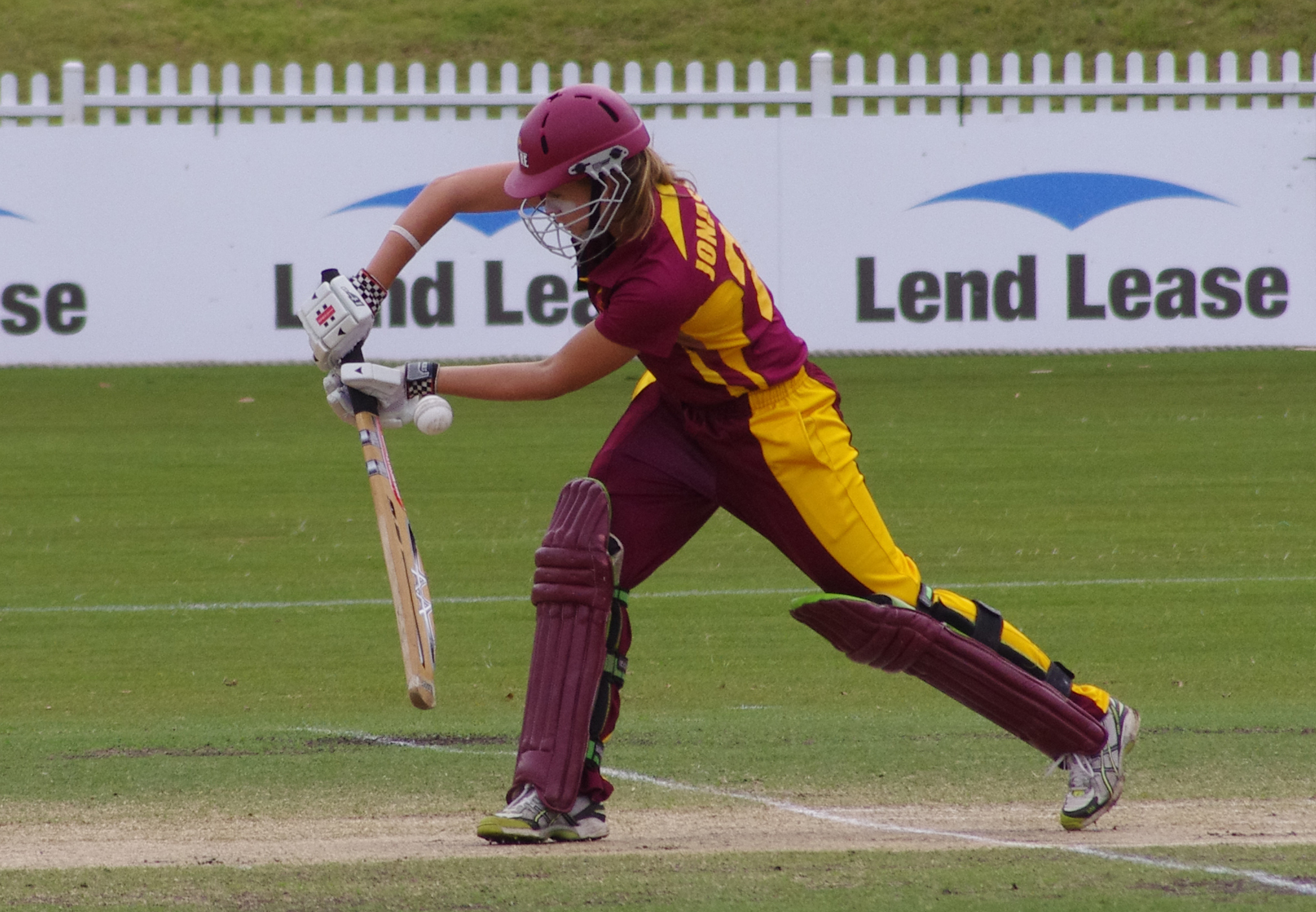 Australian cricketer Jess Jonassen playing forward